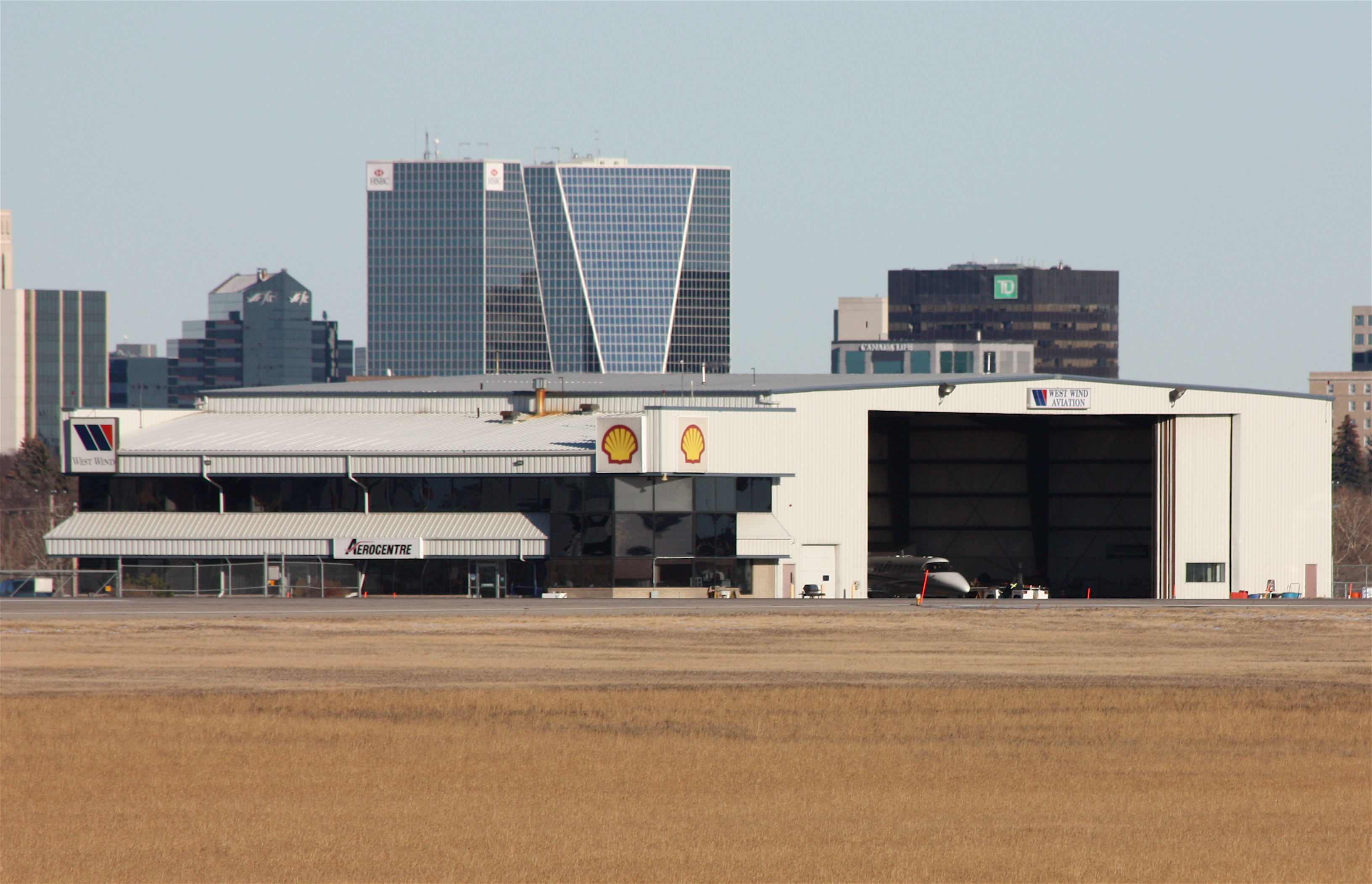 West Wind Aviation hangar and Shell Aerocentre.